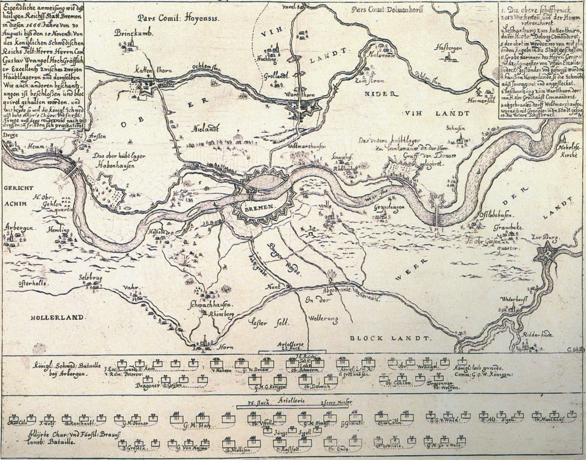 Map of the siege of Bremen, Germany, by swedish troops under Carl Gustav Wrangel in 1666.